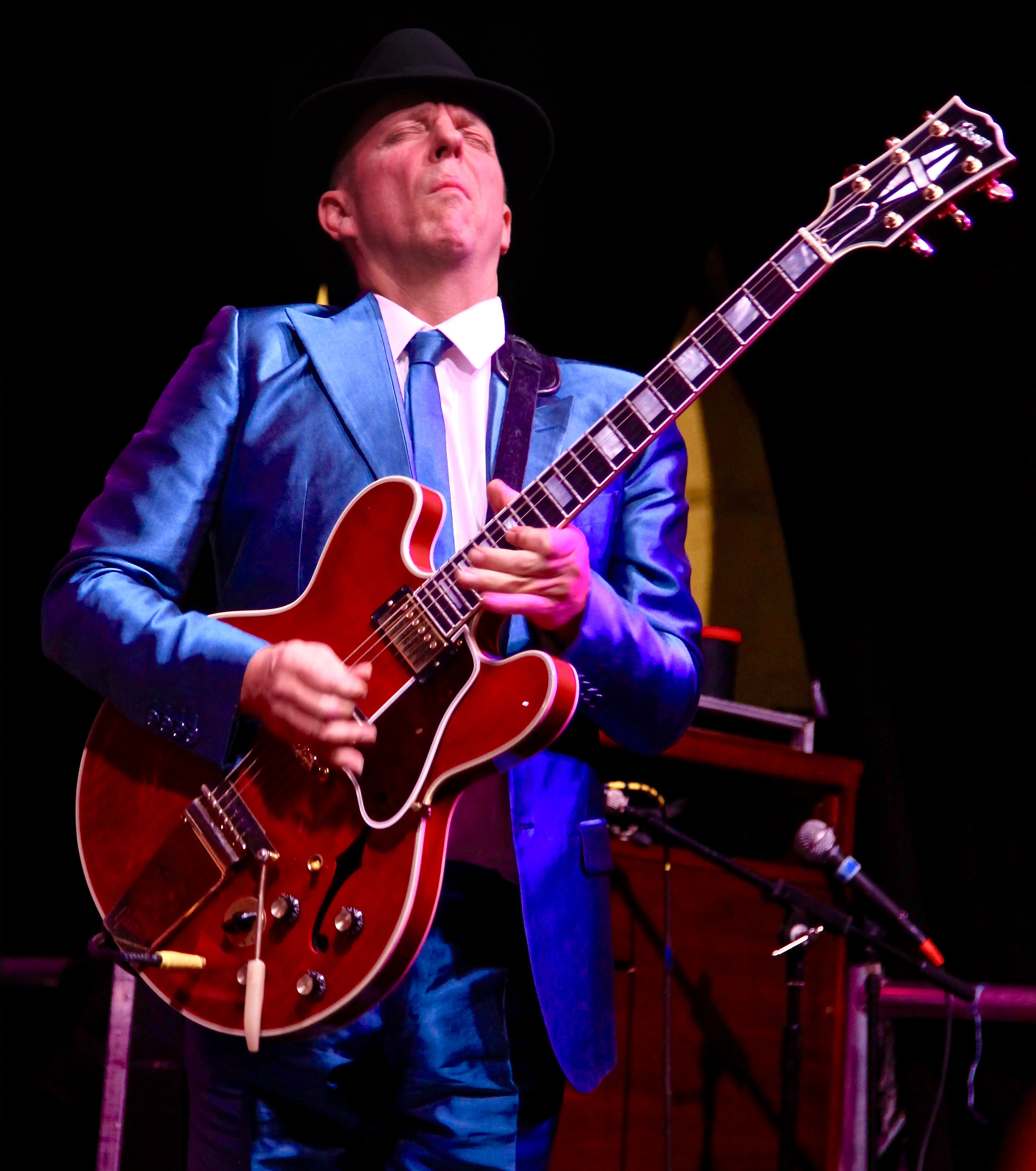 Stephen Dale Petit live in Frome, 2015. Shot by Peter Surcombe.